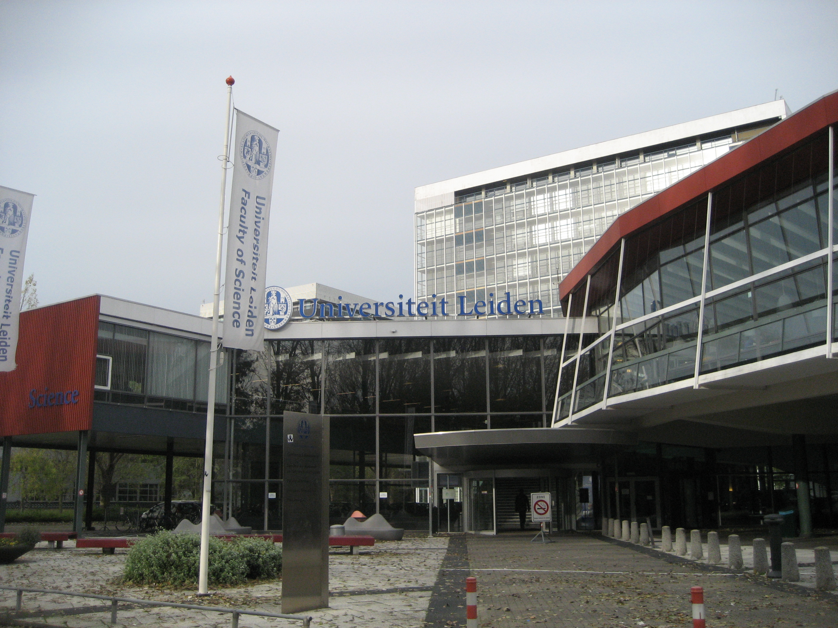 Gorlaeus Laboratory, Einsteinweg 55, Leiden (The Netherlands). Architects: Drexhage, Sterkenburg, Bodon, Venstra. Built in 1967-1971. Leiden University & Leiden Bio Science Park.